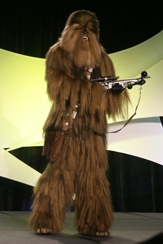 Photo by Scott Ruether. Read more at the Official Celebration IV blog. Costumes at Star Wars Celebration IV in 2007 at the Los Angeles Convention Center in Los Angeles.